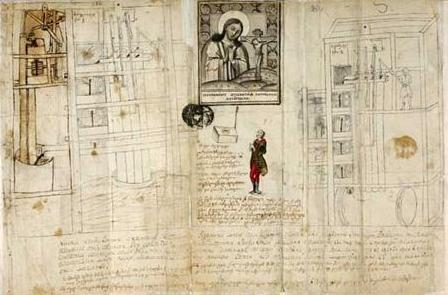 A plan of a watermill from the Davitiani, a collection of poems by David Guramishvili. The portrait of the poet is seen in the center